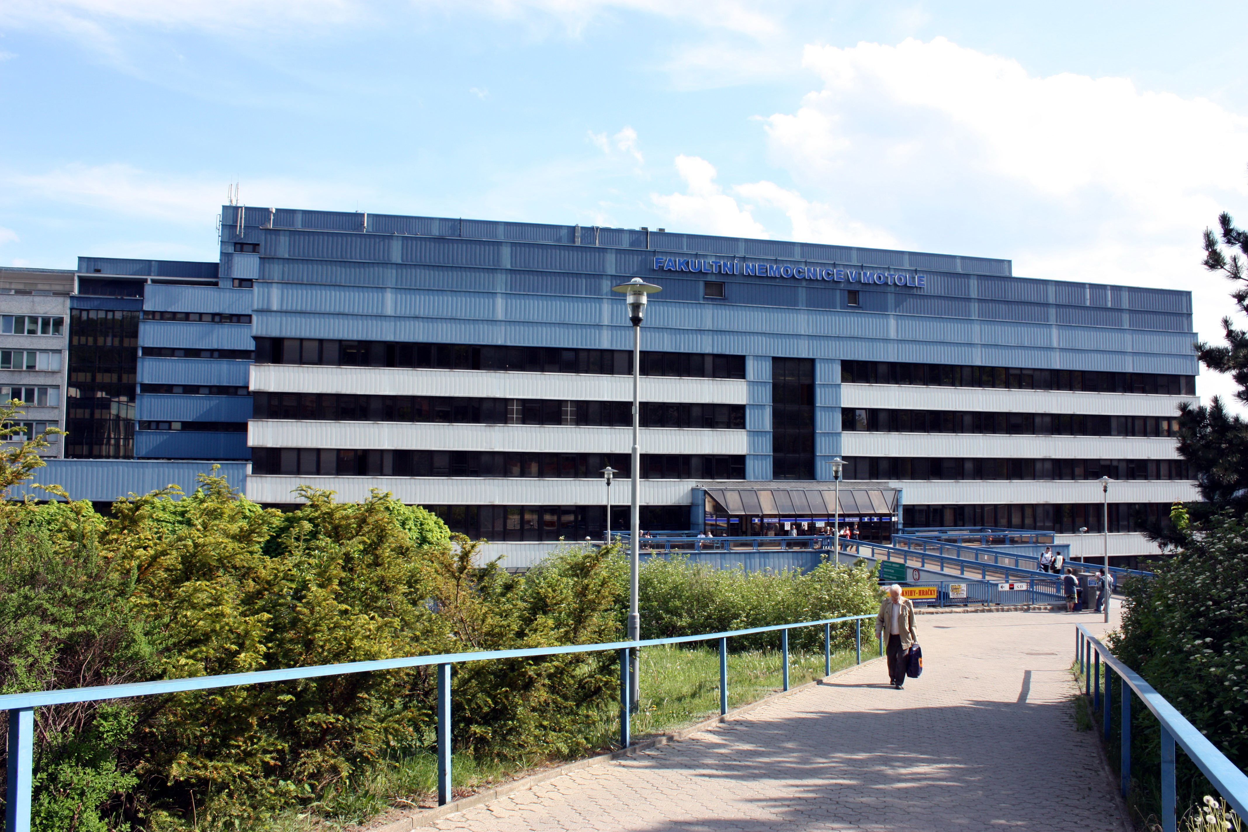 Hospital Motol in Prague, Czechia.